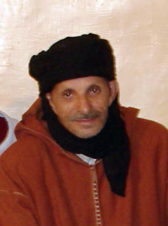 Portrait of Hussein Aït Jimhi in 2007.